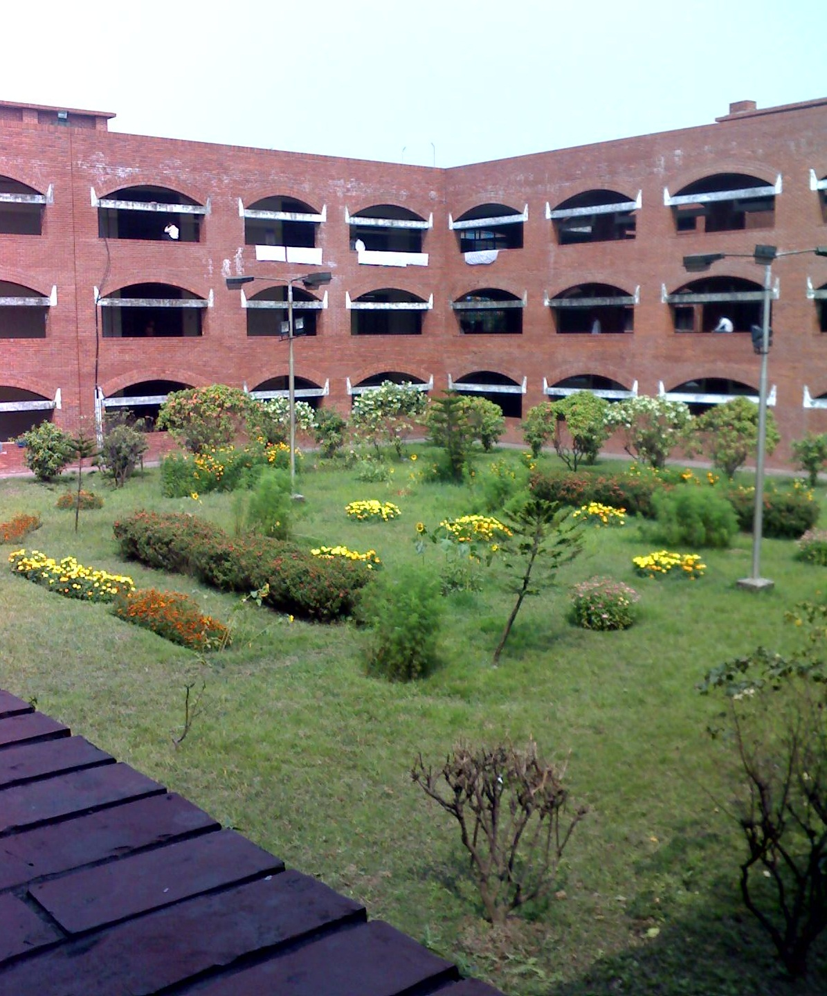 Shaheed Suhrawardy Medical College Hospital